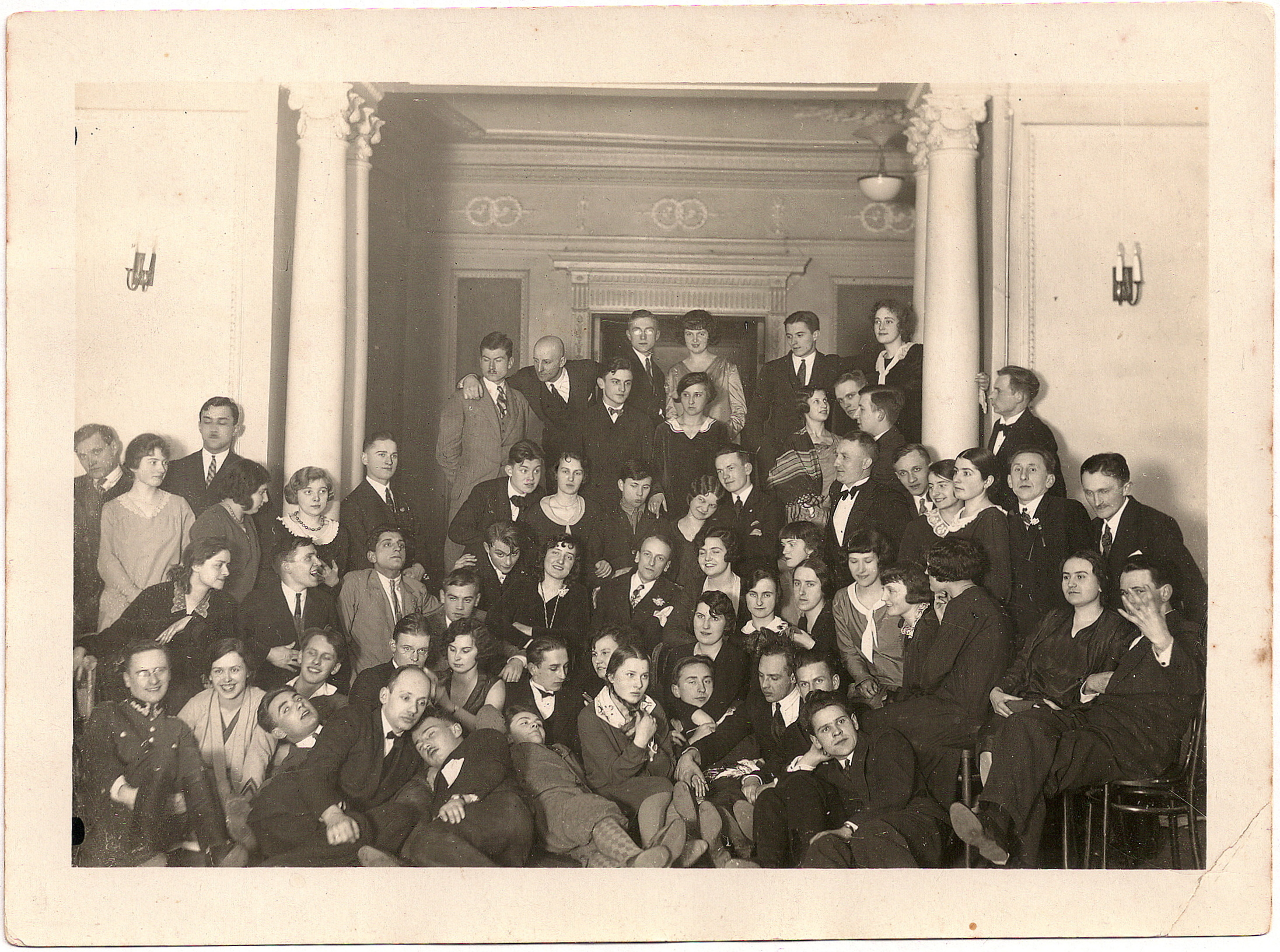 Students of Stefan Batory University of Vilna, 1930. In 3rd row, 4th from the left young Czesław Miłosz.